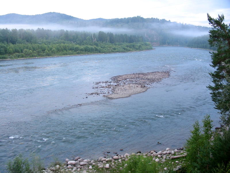 Upper reaches of Biya River, Altai Krai, Russia